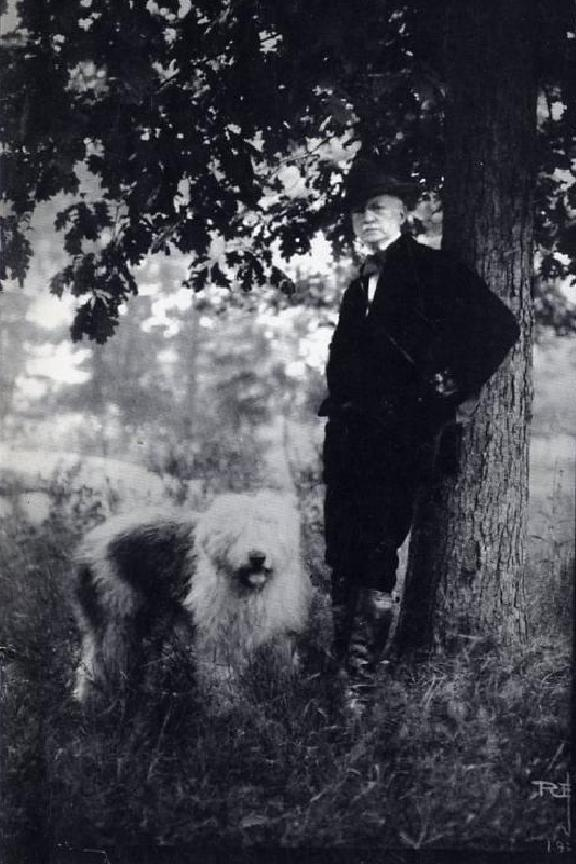 Rudolf Eickemeyer jr, selfportrait with Yonkers